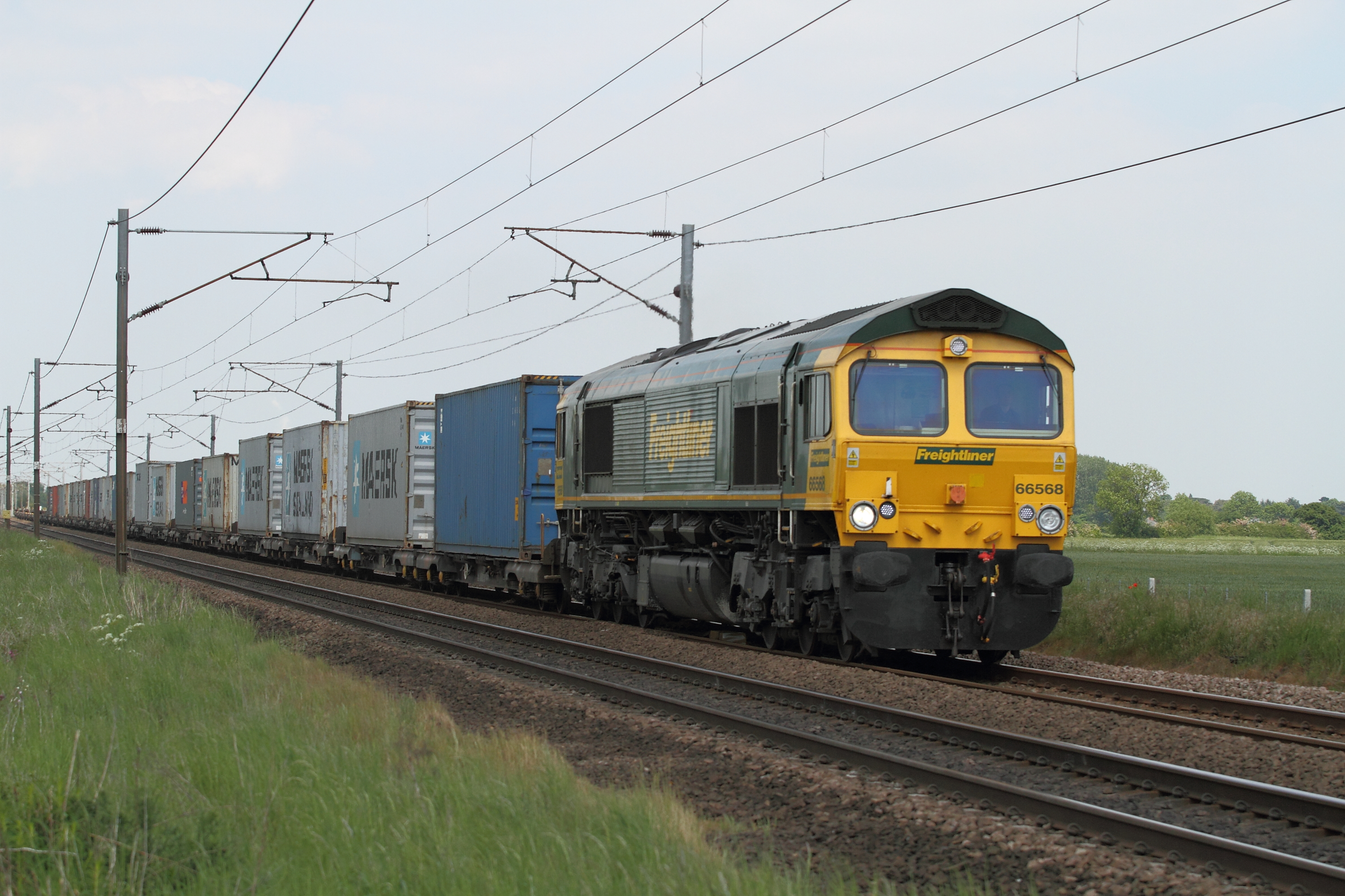 66568 crosses Cromwell Moor working 4L85 Doncaster Railport - Felixstowe